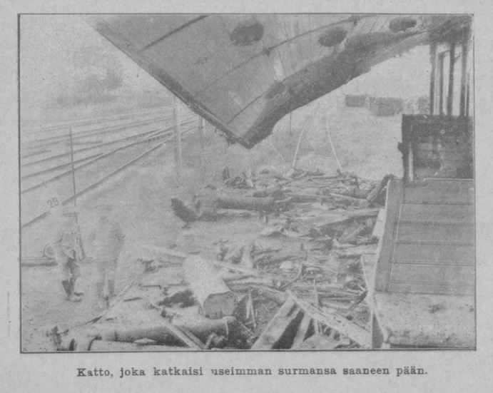 Martinkylä train disaster in Sipoo, Finland.